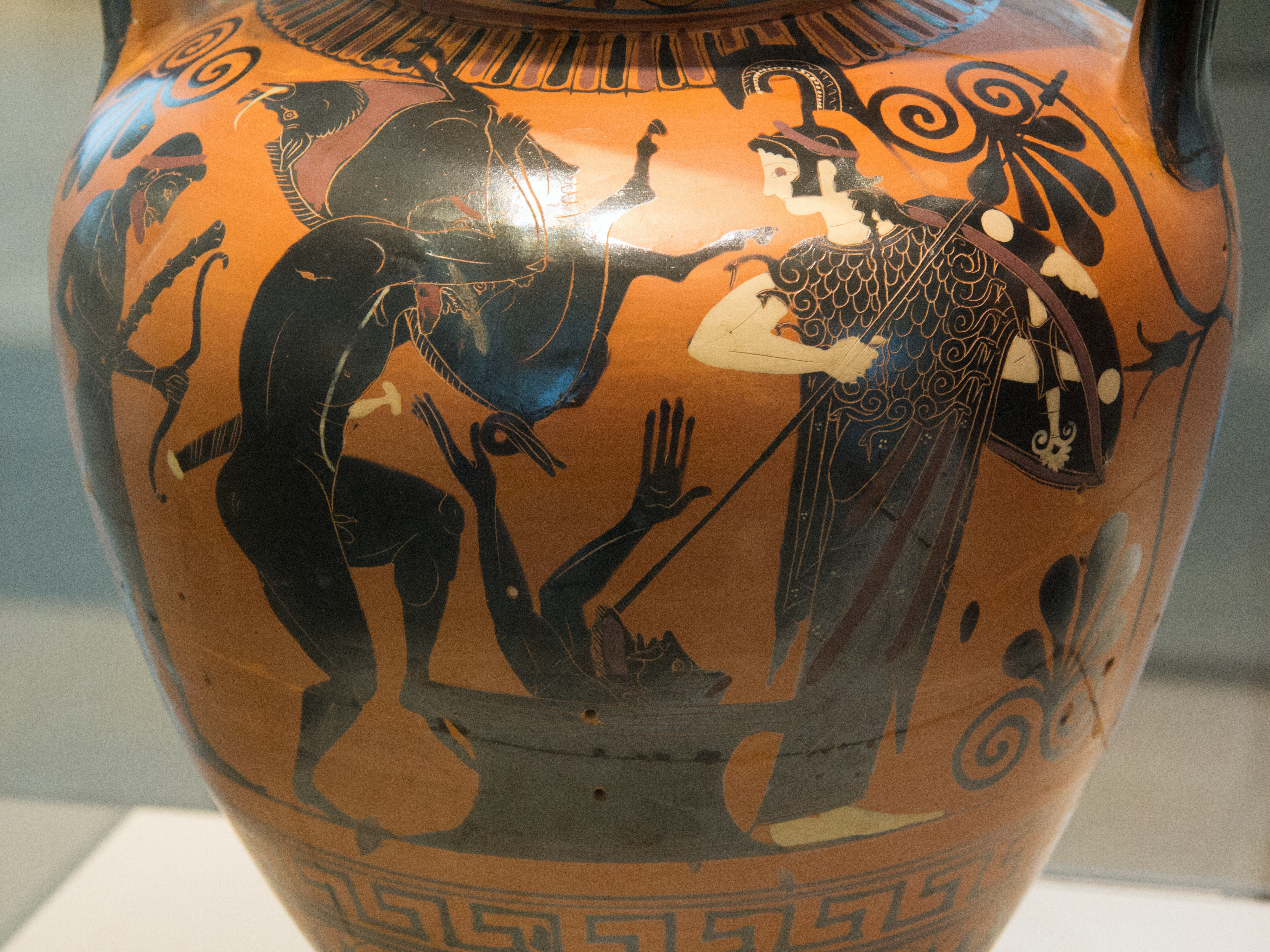 Attic black-figure amphora from Toscanella (Italy), around 510 BC. Antimenes Painter. Heracles Carries the Erymanthian Boar to Eurystheus. Antikensammlung Berlin, Altes Museum, F 1855.